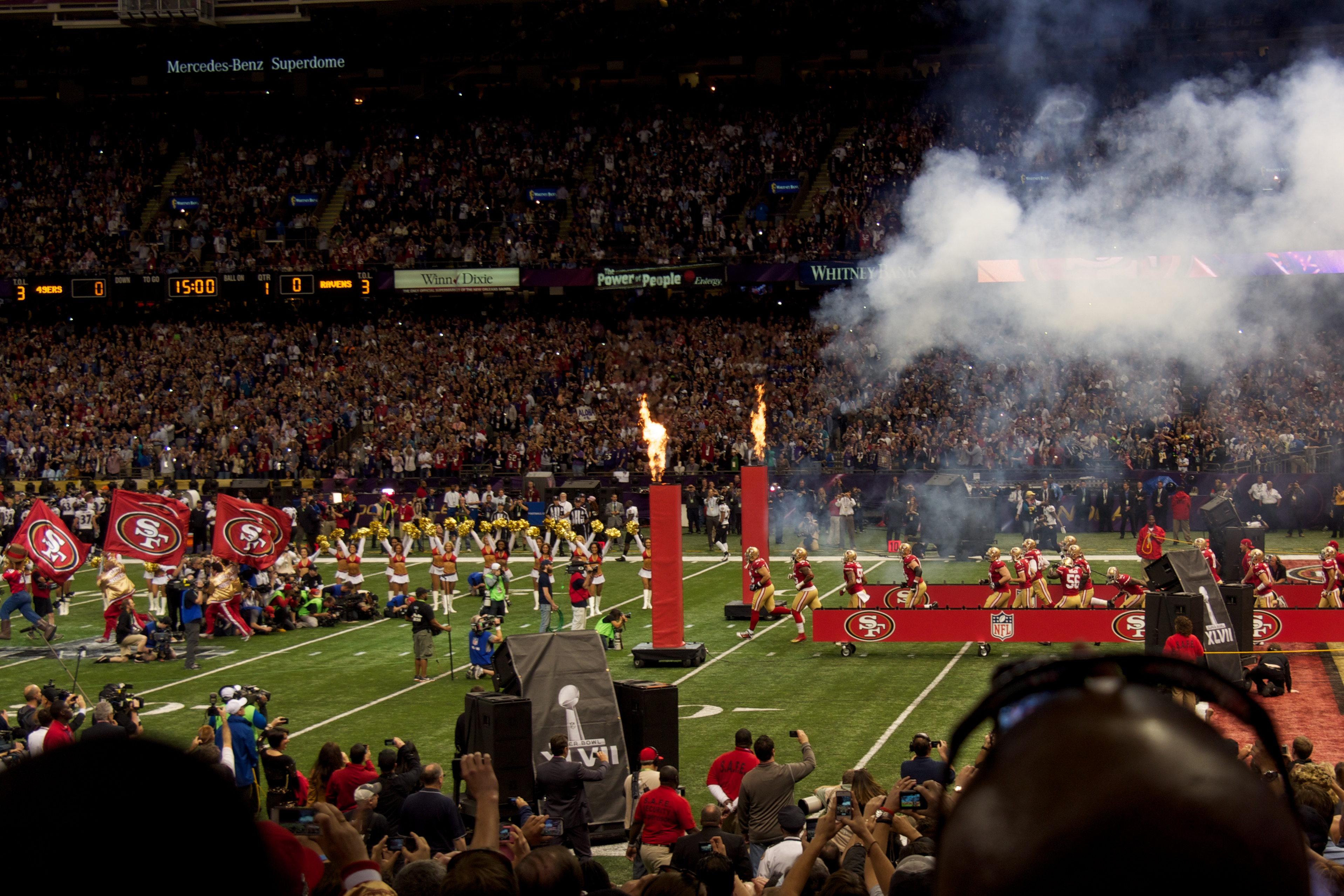 49ers Entrance During Super Bowl XLVII